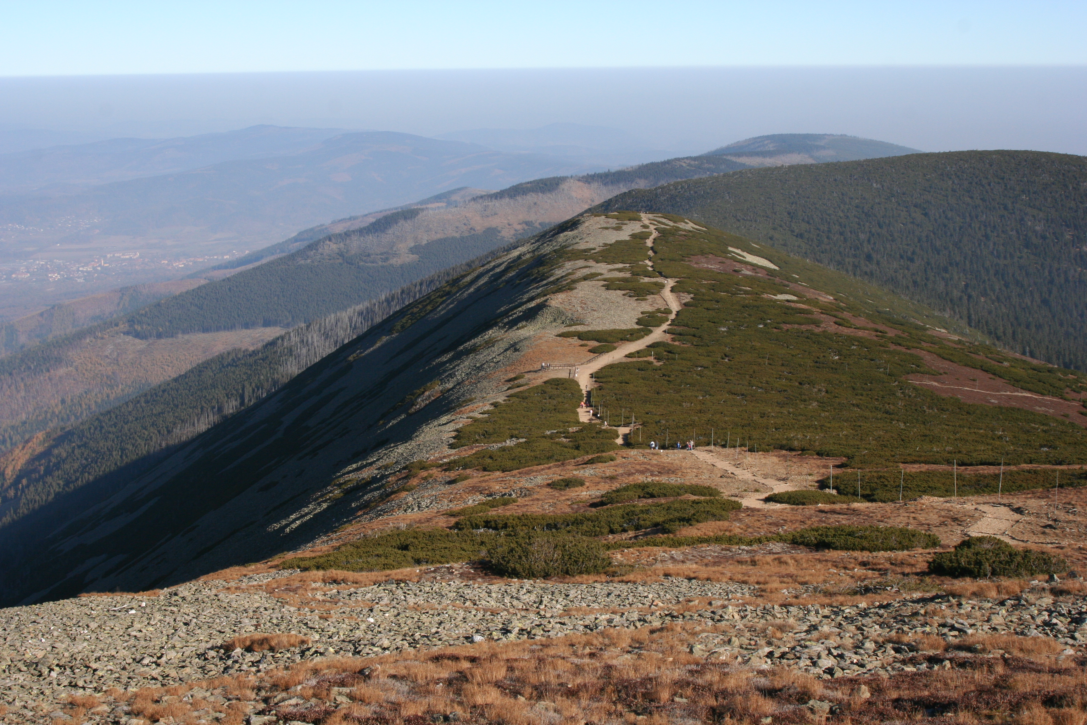 Czarny Grzbiet. View from Snezka. Karkonosze Mountains, Poland/Czech Republic.